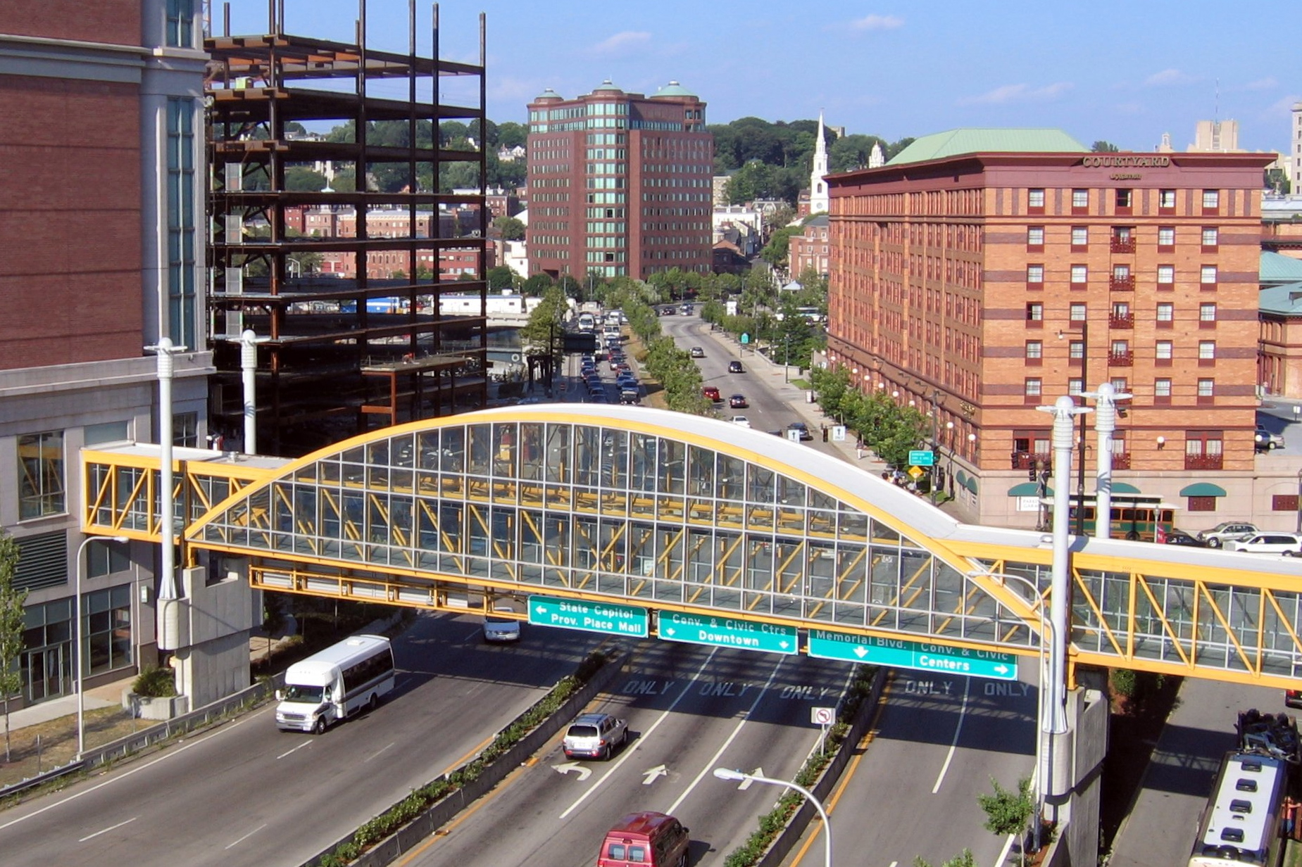 View of the construction from the top of the Convention Center Garage. From left you can see the Mall, GTECH, Citizens Plaza in the middle distance, and on the right, the Marriott Courtyard. The skybridge connecting the Mall to the Westin is in the foreground. Providence, Rhode Island.